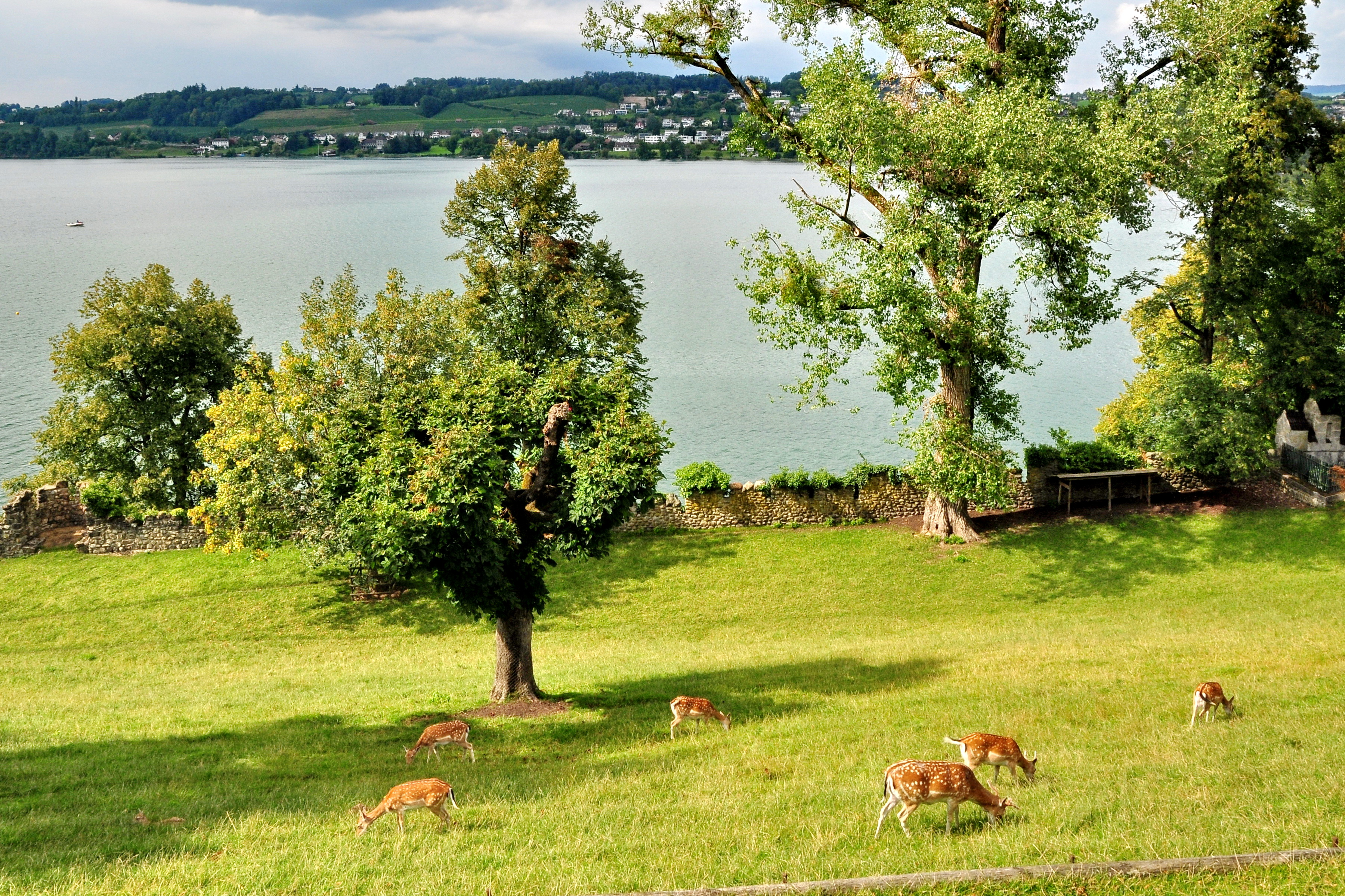 Kempraten as seen from Hirschpark (deer park) located at the Schloss in Rapperswil (Switzerland).